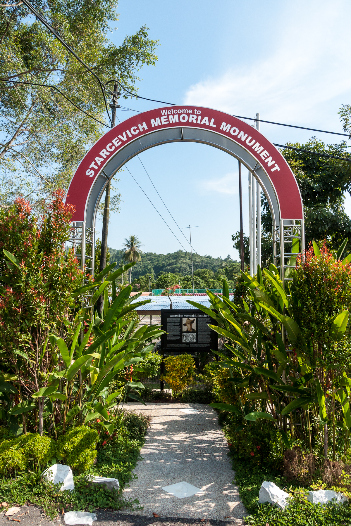 Beaufort, Sabah: Starcevich Memorial Monument